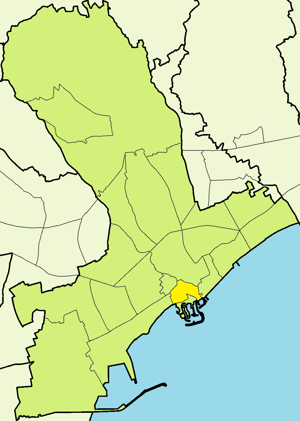 Tziami Tzentit in Limassol Municipality